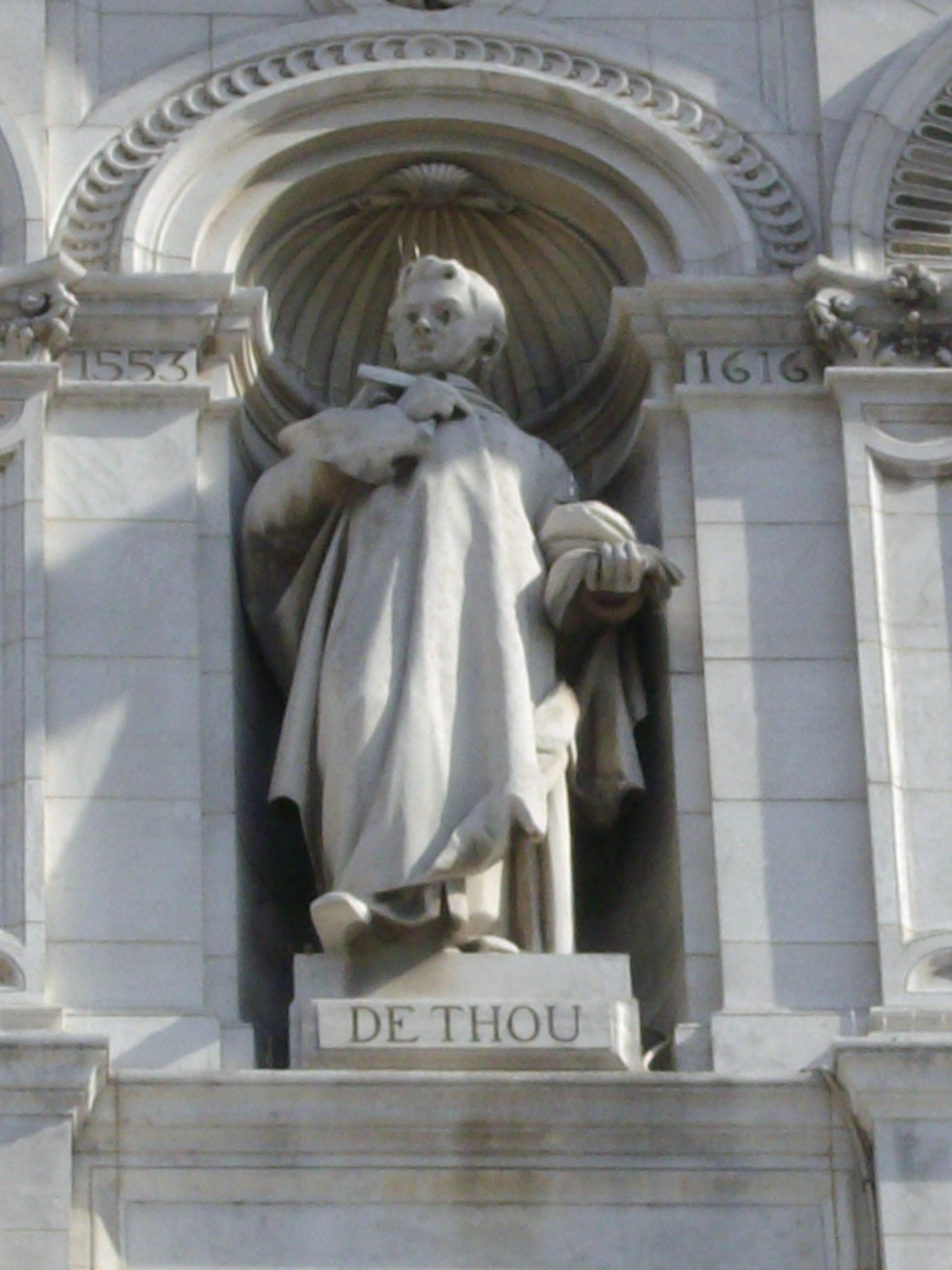 Statues of the City Hall in Paris, France